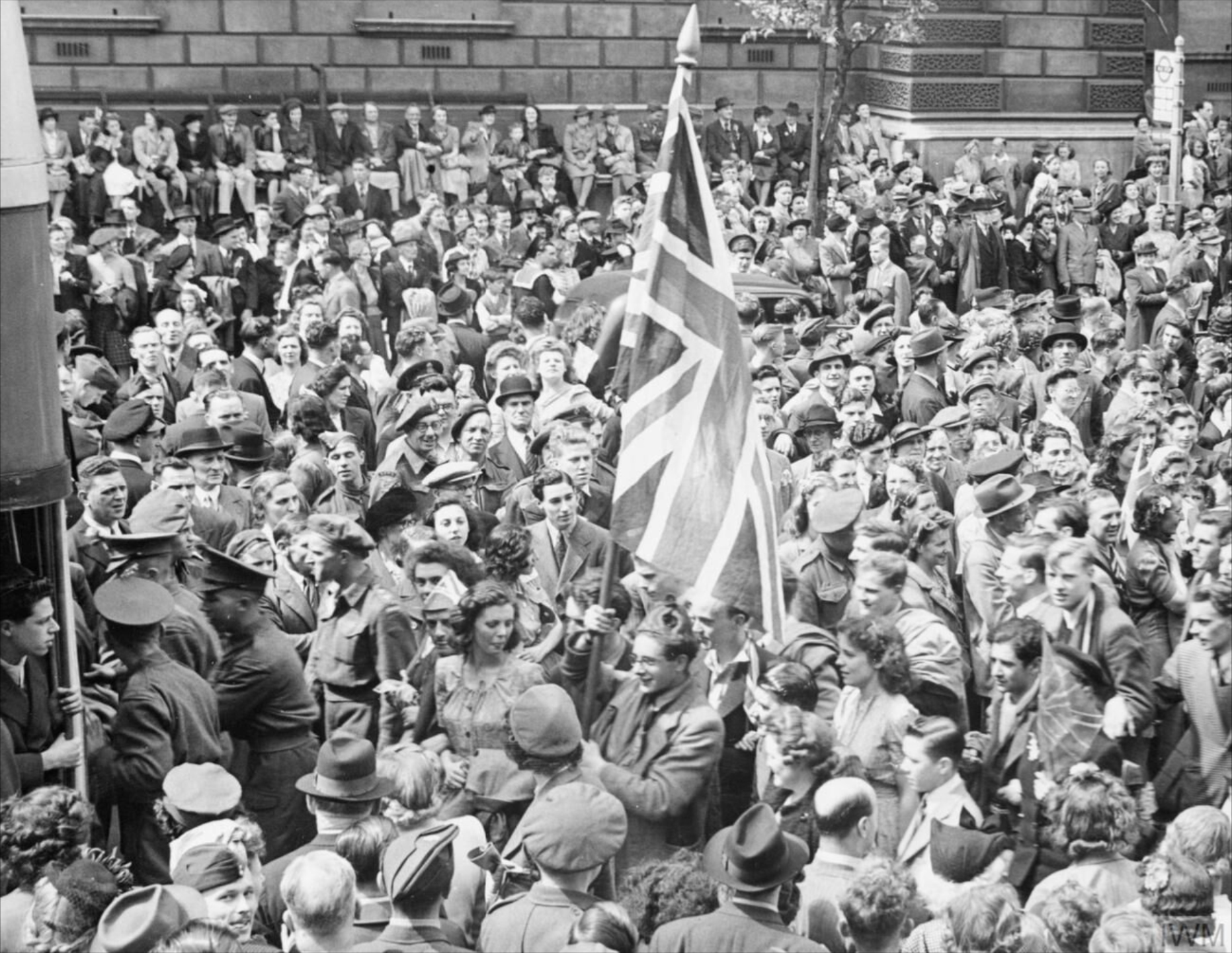 Ve Day Celebrations in London, England, UK, 8 May 1945 A young man holds aloft a large Union Flag amongst the huge crowd of people that has gathered in Whitehall to listen to Churchill's Victory speech and to celebrate Victory in Europe Day. The crowd is a mix of service personnel, civilians and children. To the left of the photograph, the back of a bus, also packed with people, is just visible.